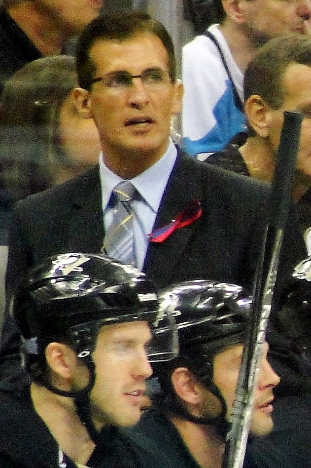 Pittsburgh Penguins Assistant Coach Tony Granato on the bench during the October 13, 2011 game against the Washington Capitals at Consol Energy Center in Pittsburgh, PA.